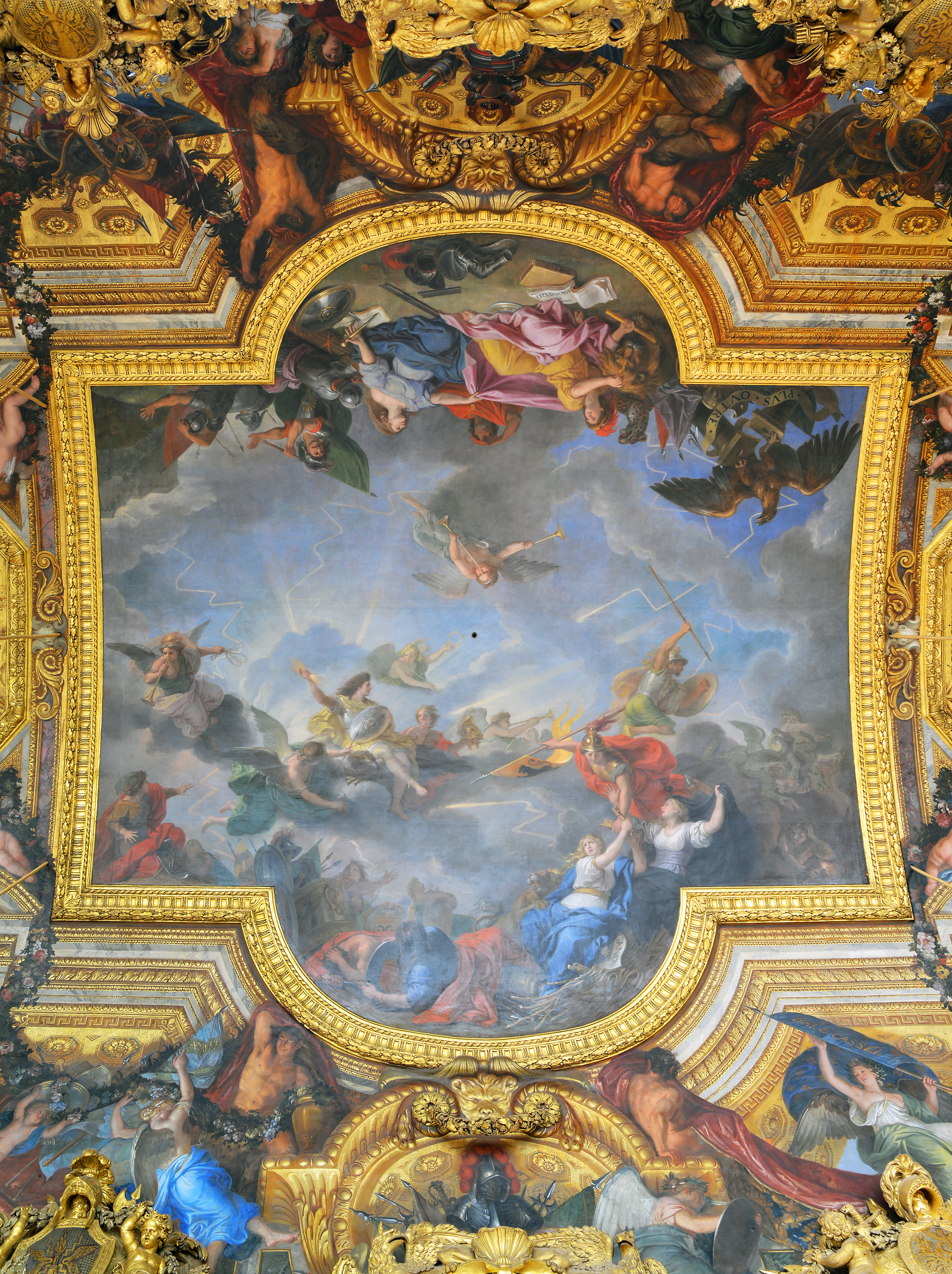 Prise de la ville et de la citadelle de Gand en six jours - Hall of Mirrors (Palace of Versailles)